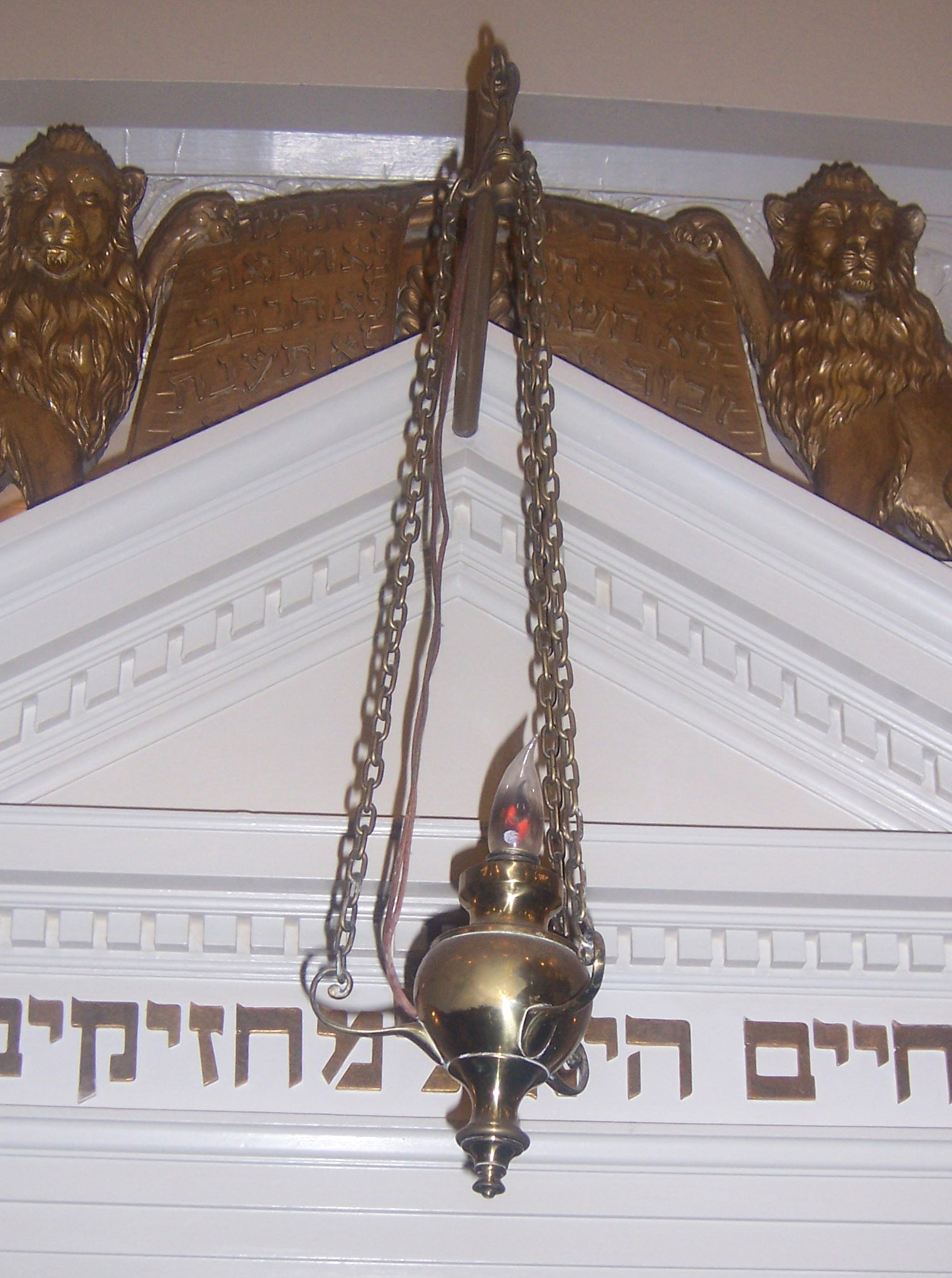 I took this picture of the ner tamid at Kesher Israel (Washington, D.C.).